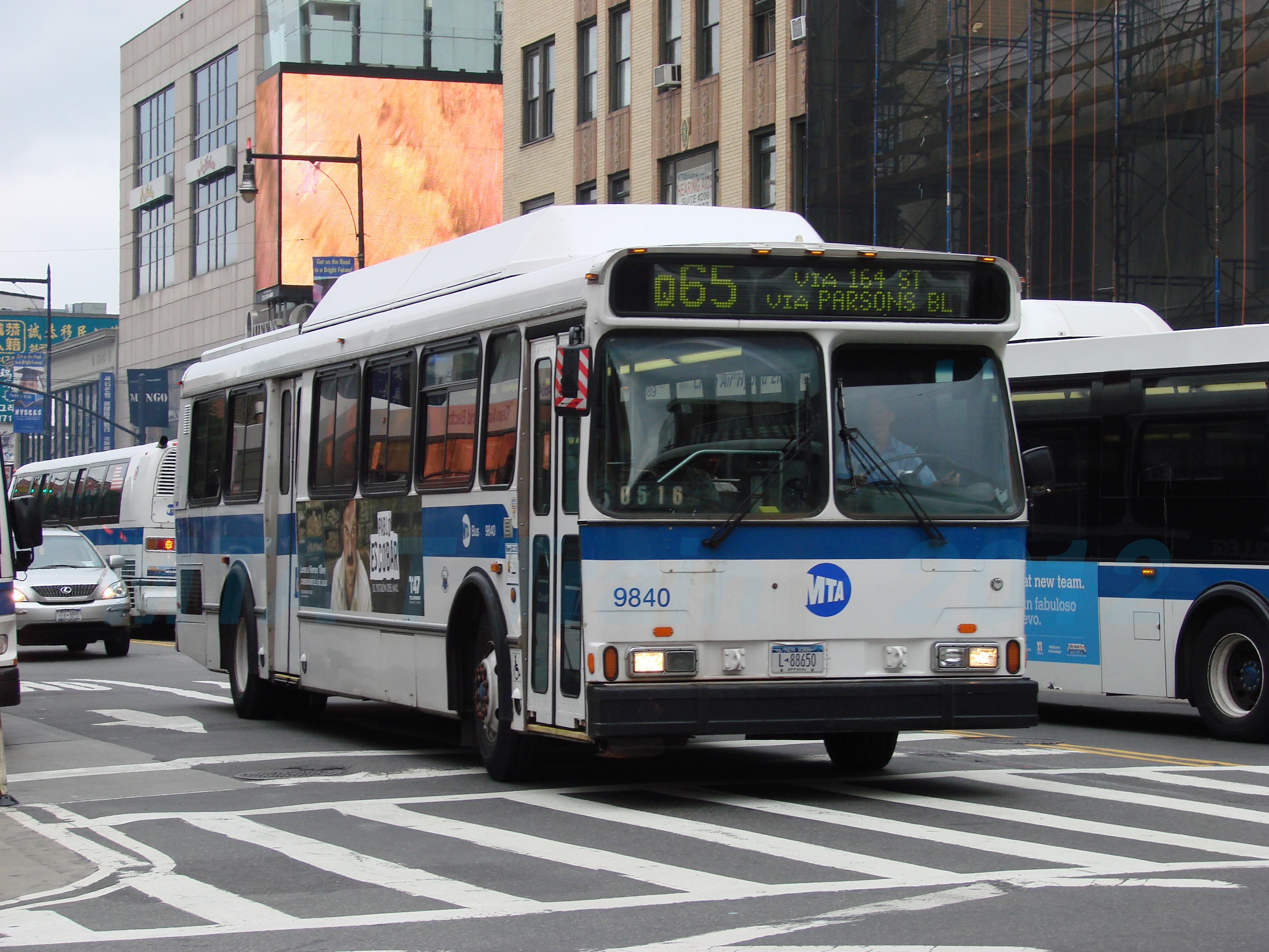 MTA NYC Orion 5 (unit 9840) Q65 bus in Flushing.